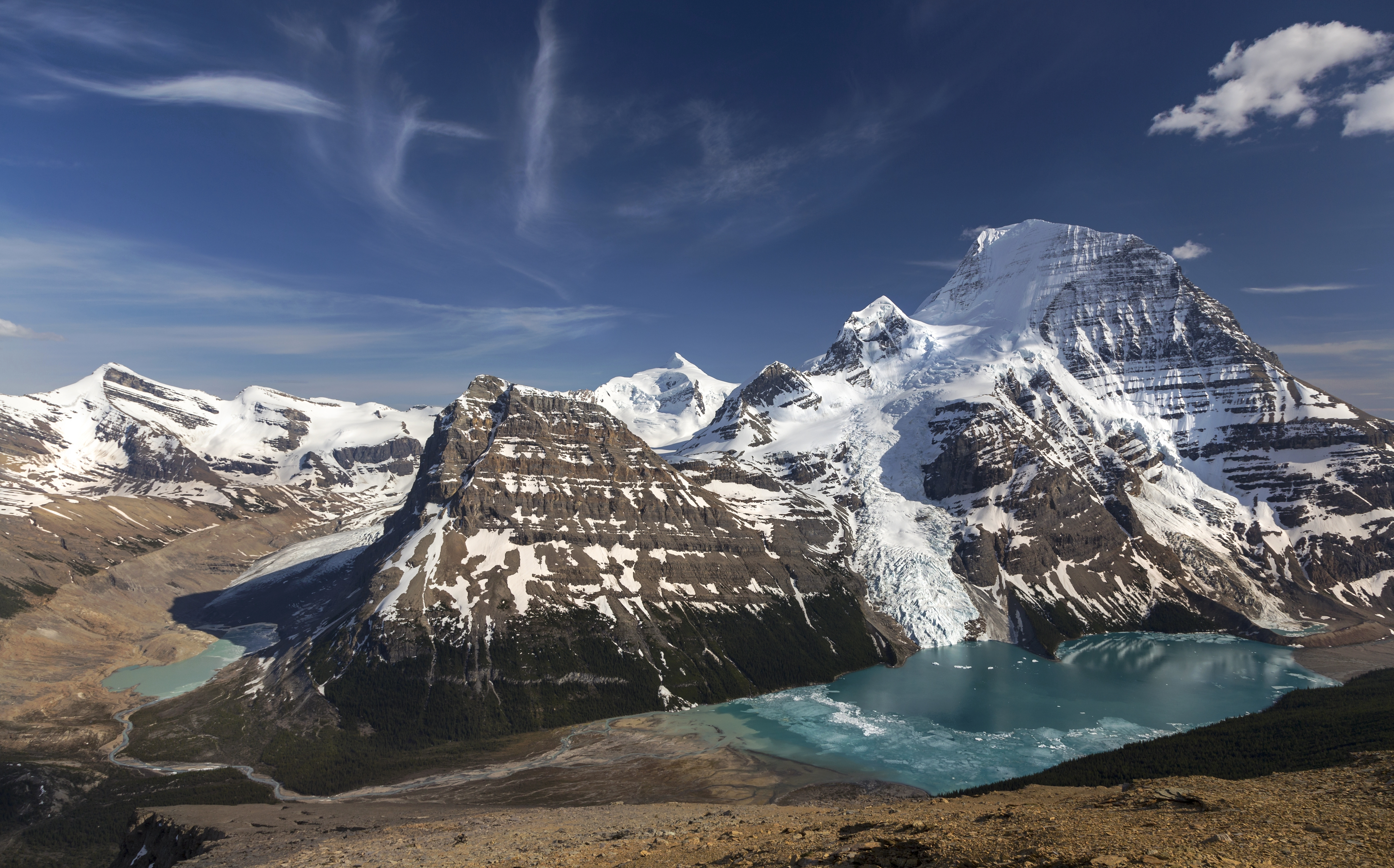 Panoramic Landscape View of Berg Lake Basin in Mount Robson Provincial Park in Rocky Mountains of British Columbia Canada This photo was taken in a protected area in Canada, Wikidata item Mount Robson Provincial Park (Q1950710)